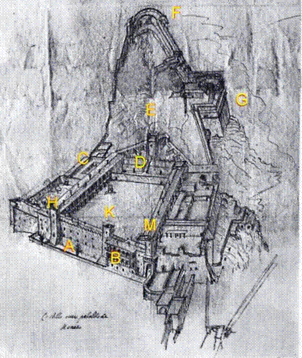 Edited 17th century drawing of the Royal Palace at Monoco. Original is in the public domain by virtue of age - this version is edited by the uploader as to fome a key for a wikipedia article. The palace in the 17th century. North is to the right of the picture. A: Entrance; B, C: State apartments, double loggia, and horse-shoe stairs; D: Future site of chapel; E, F: All Saints Tower; G: Serravalle; H: South Tower; K: Middle Tower; M: St Mary's Tower.